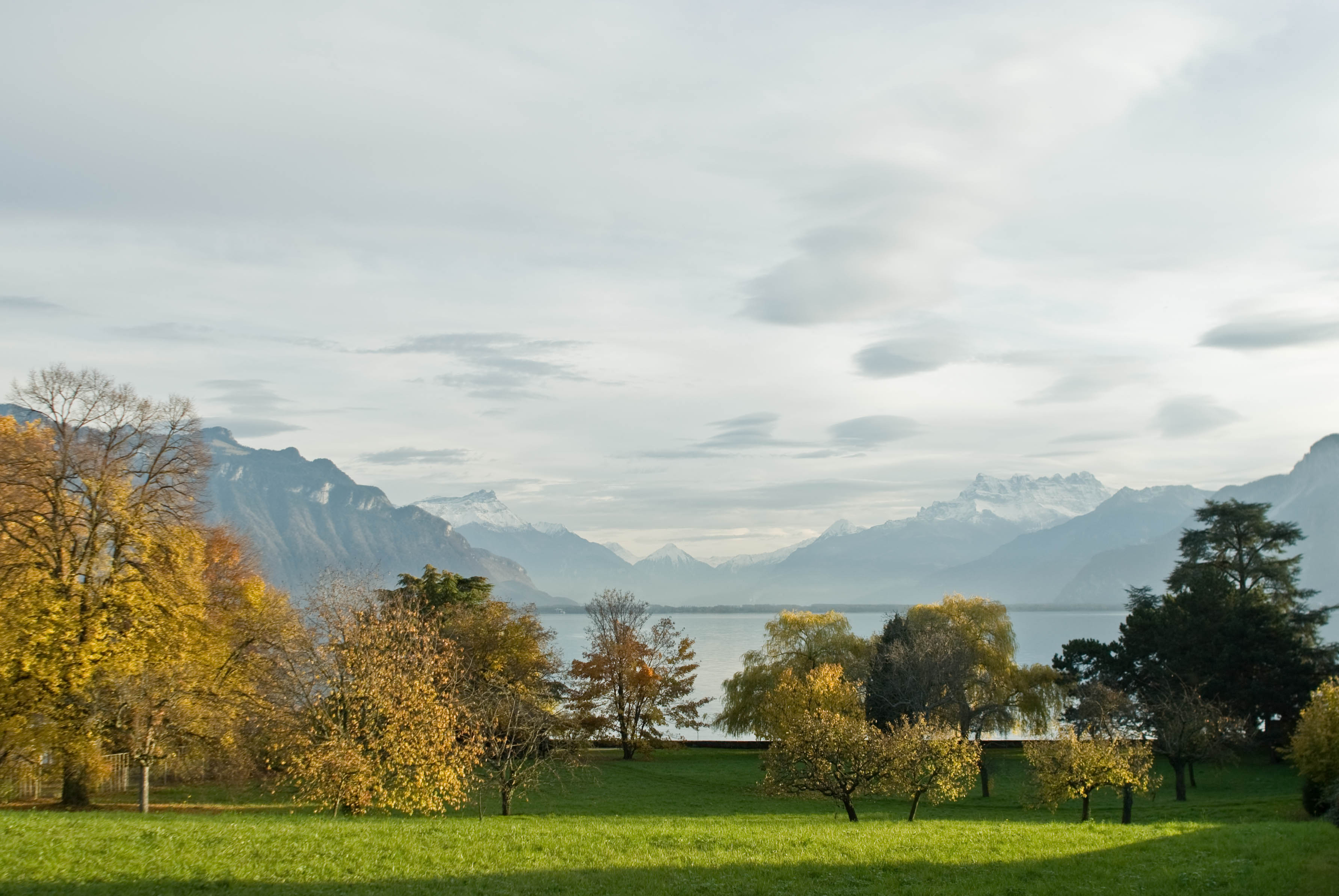 Park and harbor of La Tour-de-Peilz, Vaud, Switzerland.